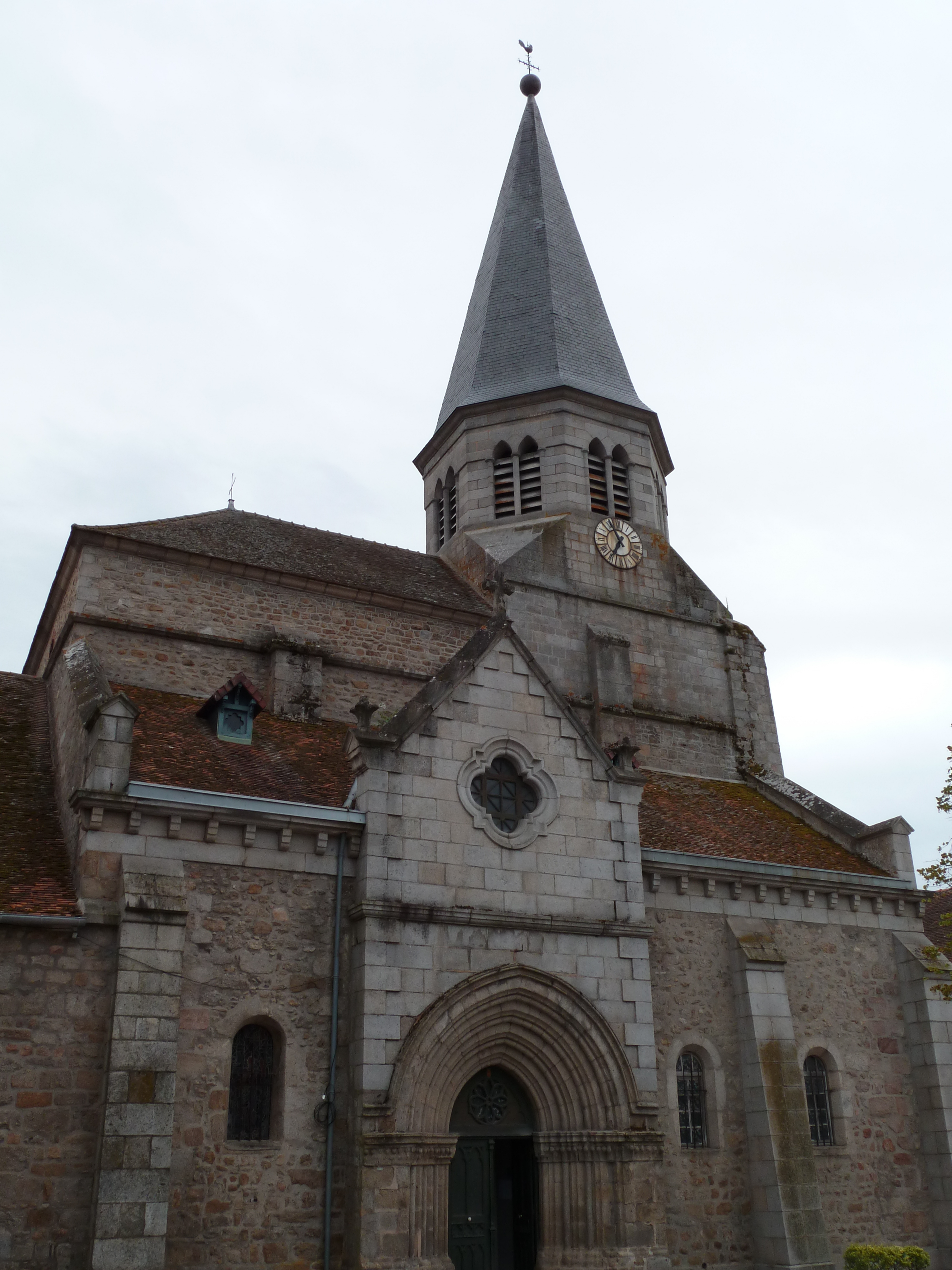 Auzances. Saint-Jacques church (XIIth to XIXth century). Northern side.